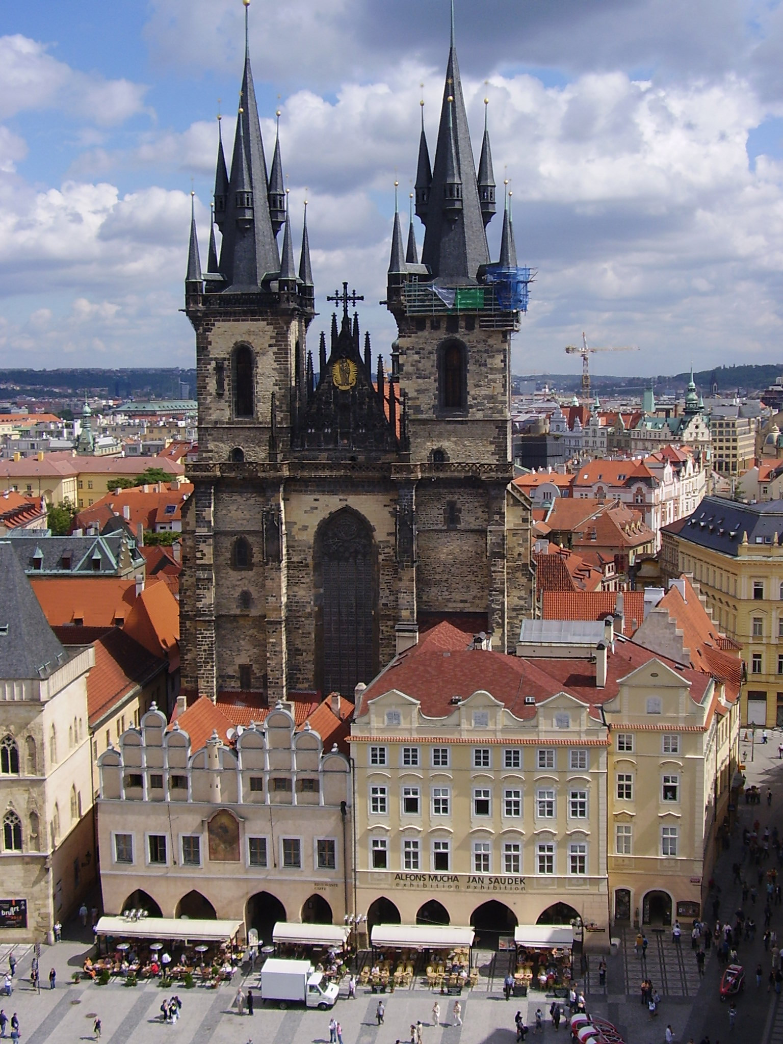 Tyn Church in Prague.